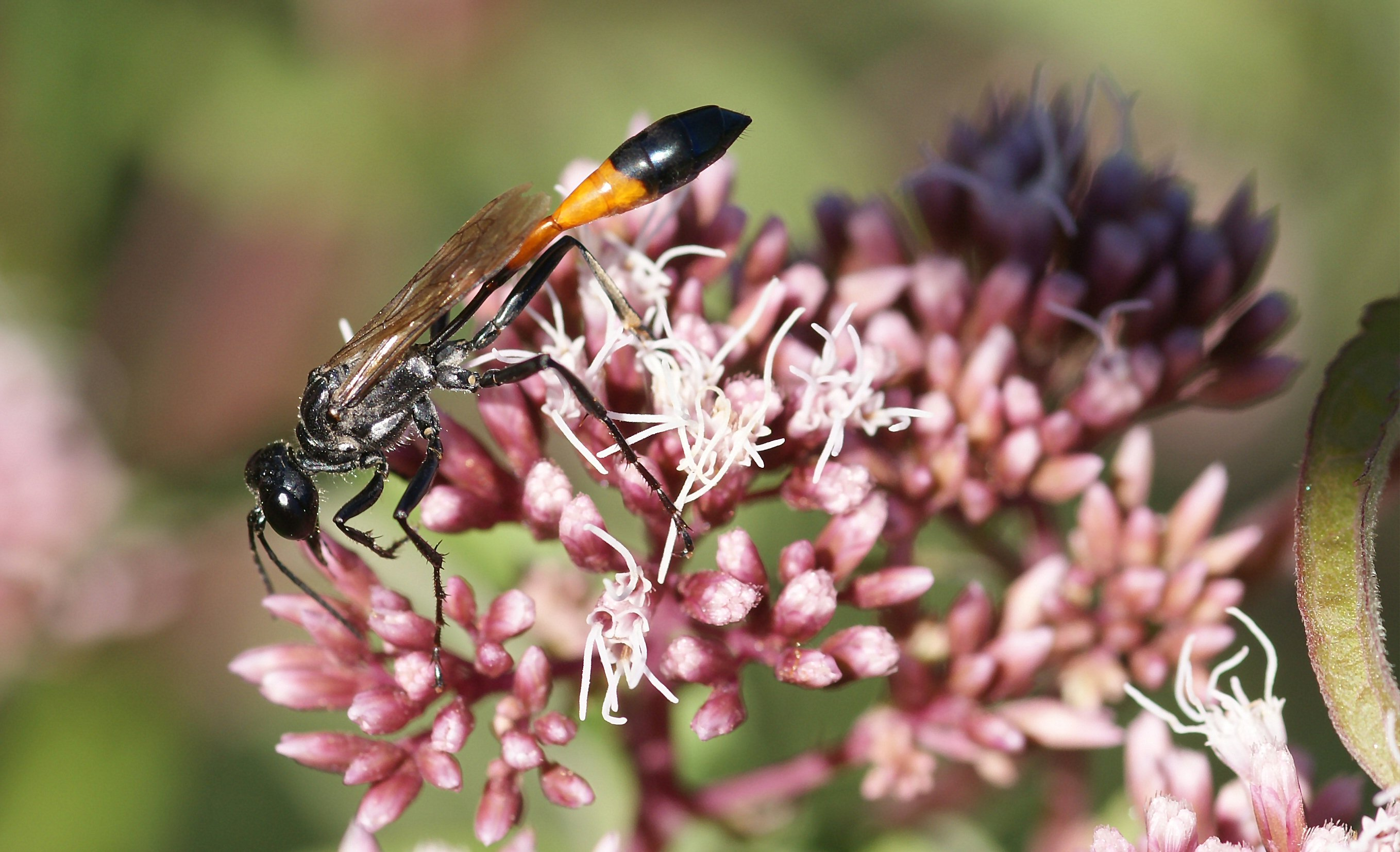 Sand Wasp Ammophila sabulosa on Hemp Agrimony Eupatorium cannabinum